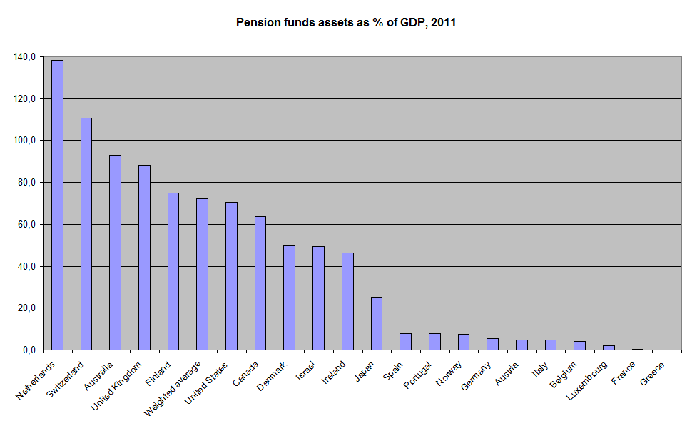 Assets of pension funds in selected countries as a percentage of GDP, 2011. Source: OECD, Pension Markets in Focus, September 2012, page 4, URL